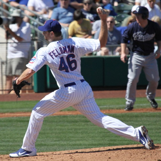 Scott Feldman